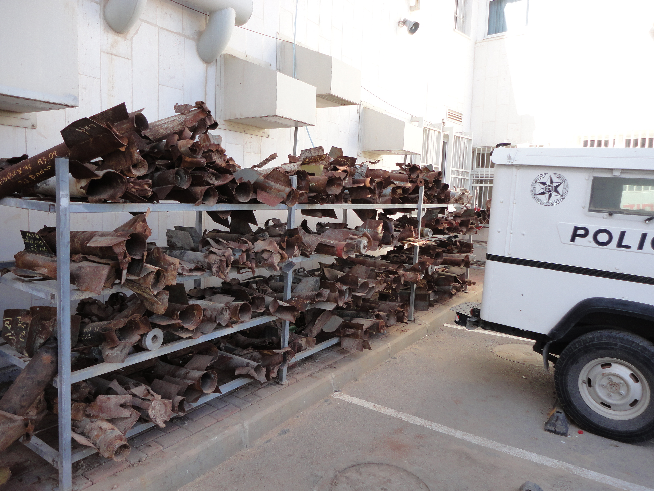 Qassam rockets fired from the Gaza Strip onto the Israeli boarder city of Sderot. These are on display behind a police station.